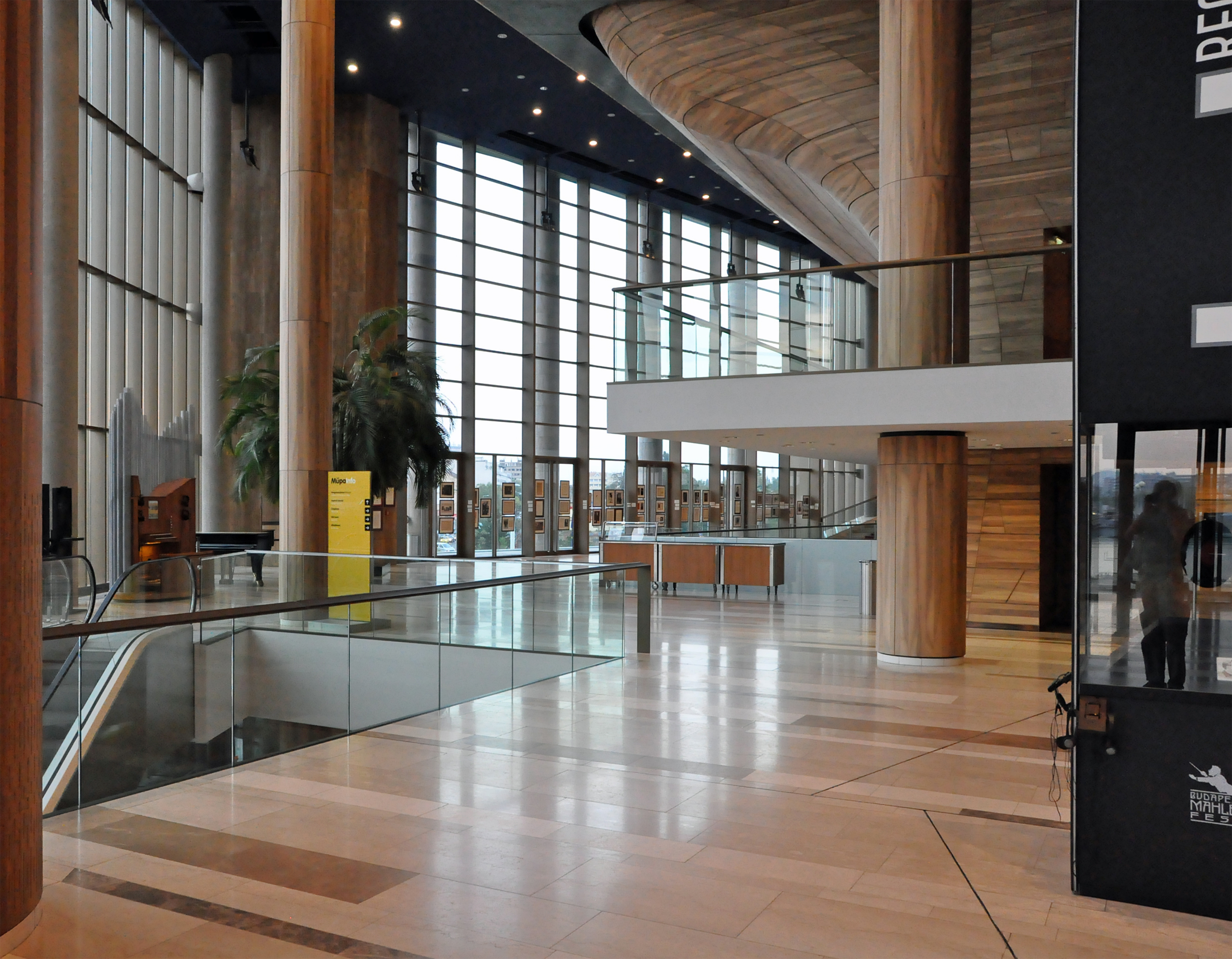 Budapest (Hungary): Interior of the Palace of Arts